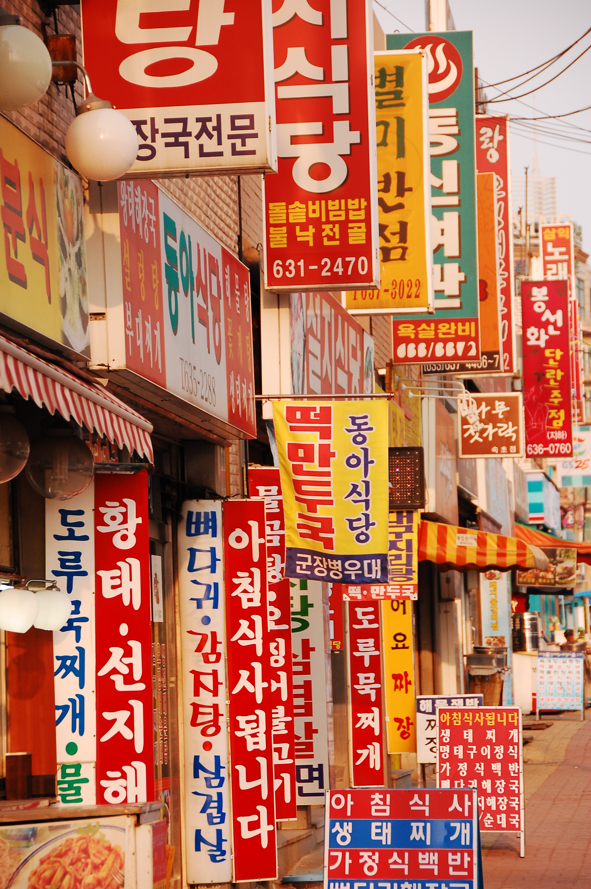 Korean advertisement, hangul exemple